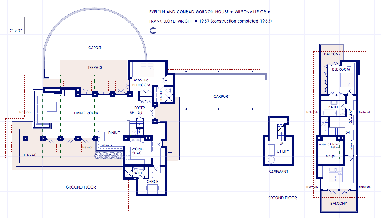 Floor plans of the Evelyn and Conrad Gordon House, Silverton OR, formerly Wilsonville OR. Designed by Frank Lloyd Wright in 1957, construction completed in 1963.